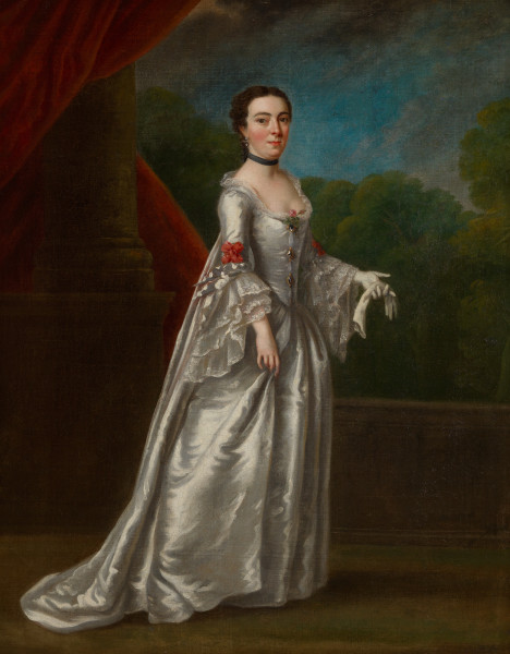 George Anne Bellamy by F Lindo exhibited in 1833 now owned by Garrick Club